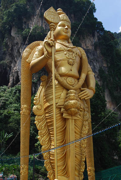 This picture was captured during my recent trip to Batu Caves, Malaysia. Standing at 42.7 meter (140.09 ft) high, the world's tallest statue of Murugan, a Hindu deity, is located outside Batu Caves. The statue, which cost approximately Rupees 24 million, is made of 1550 cubic metres of concrete, 250 tonnes of steel bars and 300 litres of gold paint brought in from neighboring Thailand. Photography work by Loke Seng Hon 2008